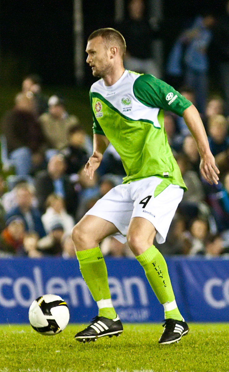 Scott Wilson playing in a pre-season match for the North Queensland Fury against Sydney FC.